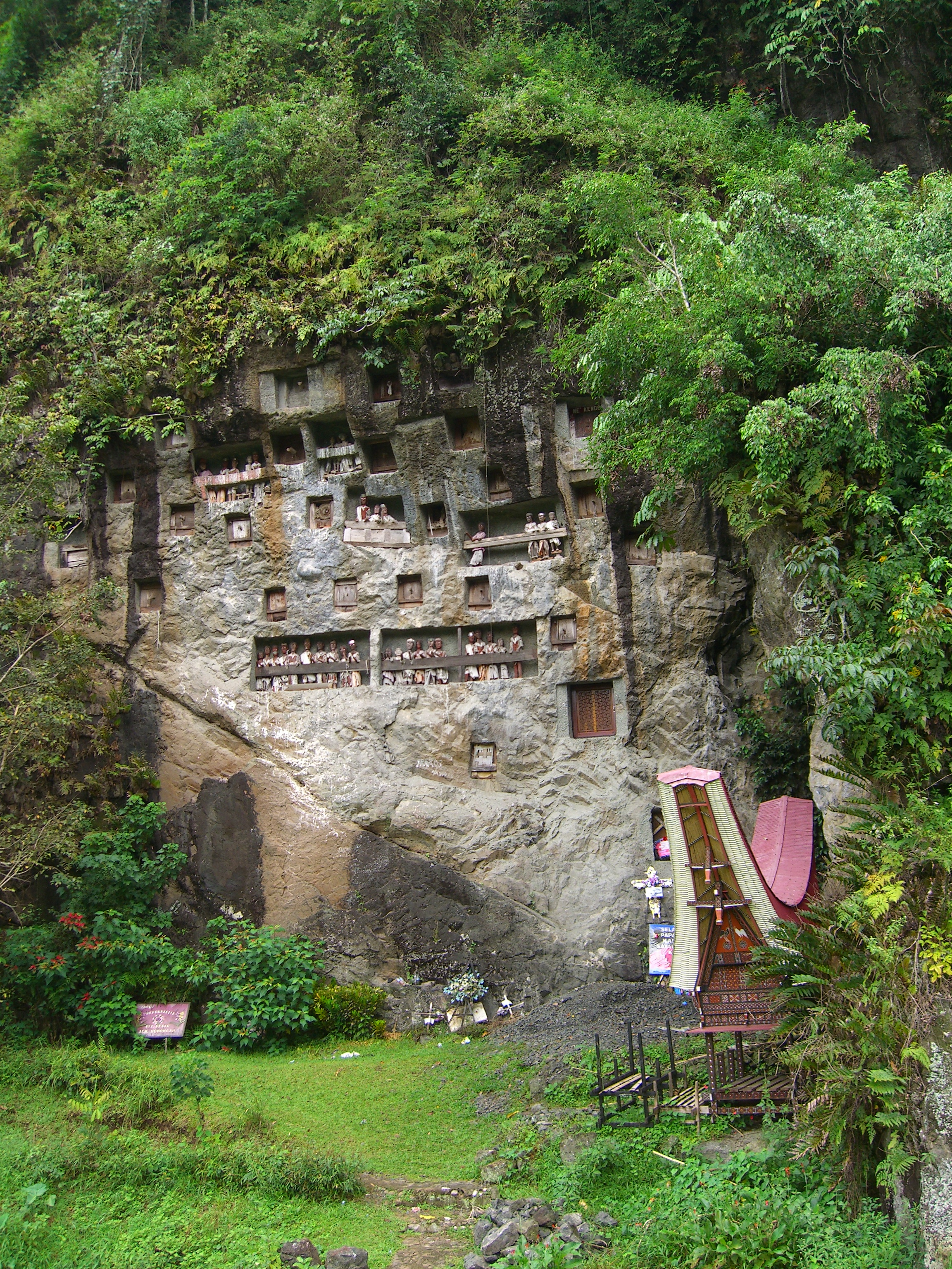 Lemo, Toraja, South Sulawesi